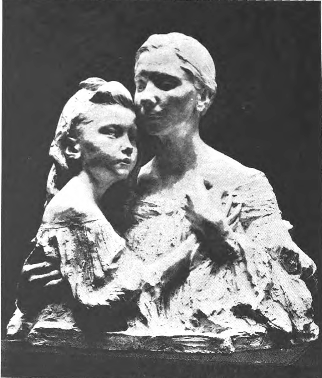 Sculpture of 69. "Mother and Daughter" by Clara Pfeiffer Garrett. Later description states "Awarded First Prize, Annual Competitive Exhibition, St. Louis Art League, 1916"